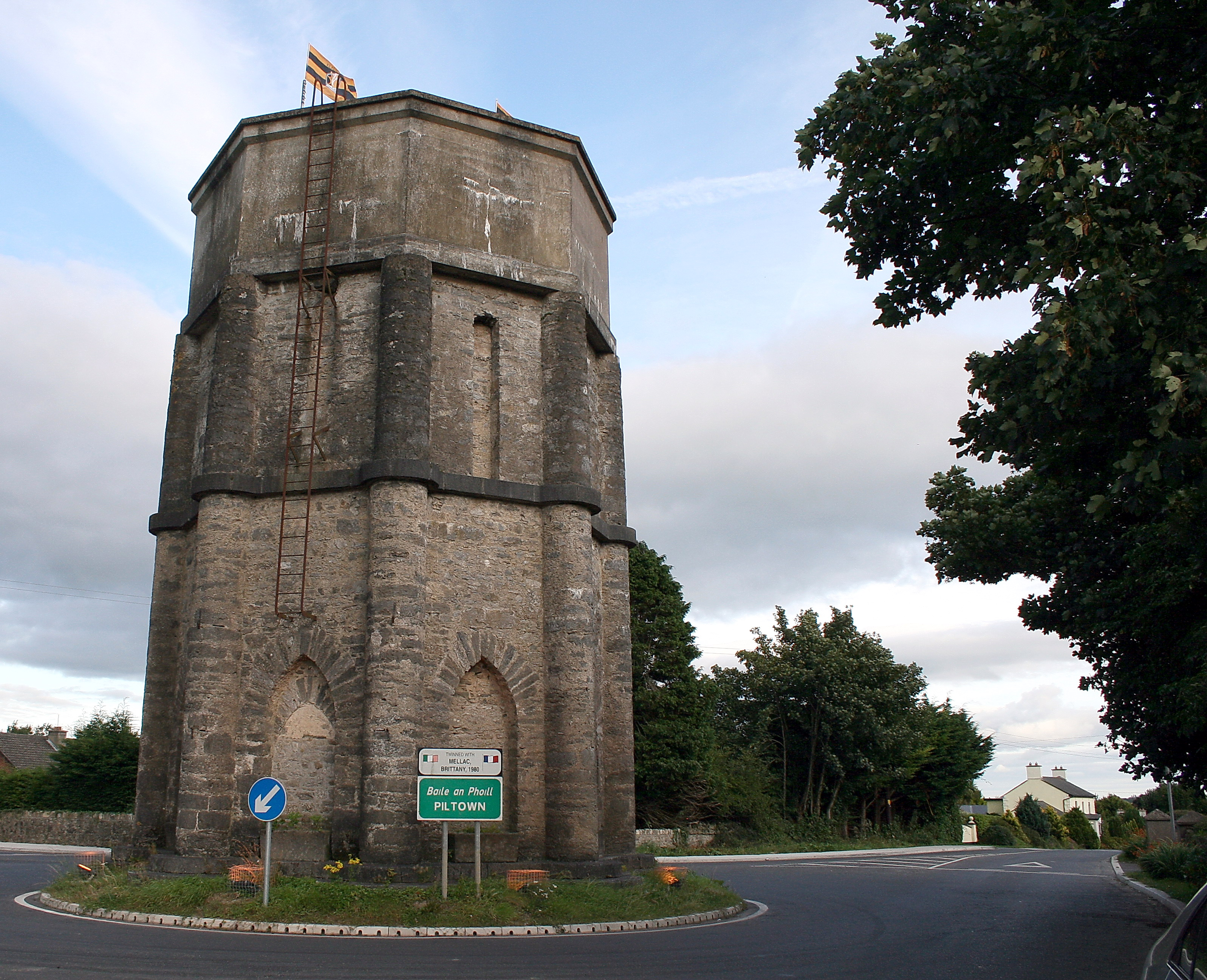 Piltown, County Kilkenny, near to Baile an Phoill, Sandpits Cross Roads, The Sweep and Knockroe, Kilkenny, Ireland. The Tower with Kilkenny flags aloft.